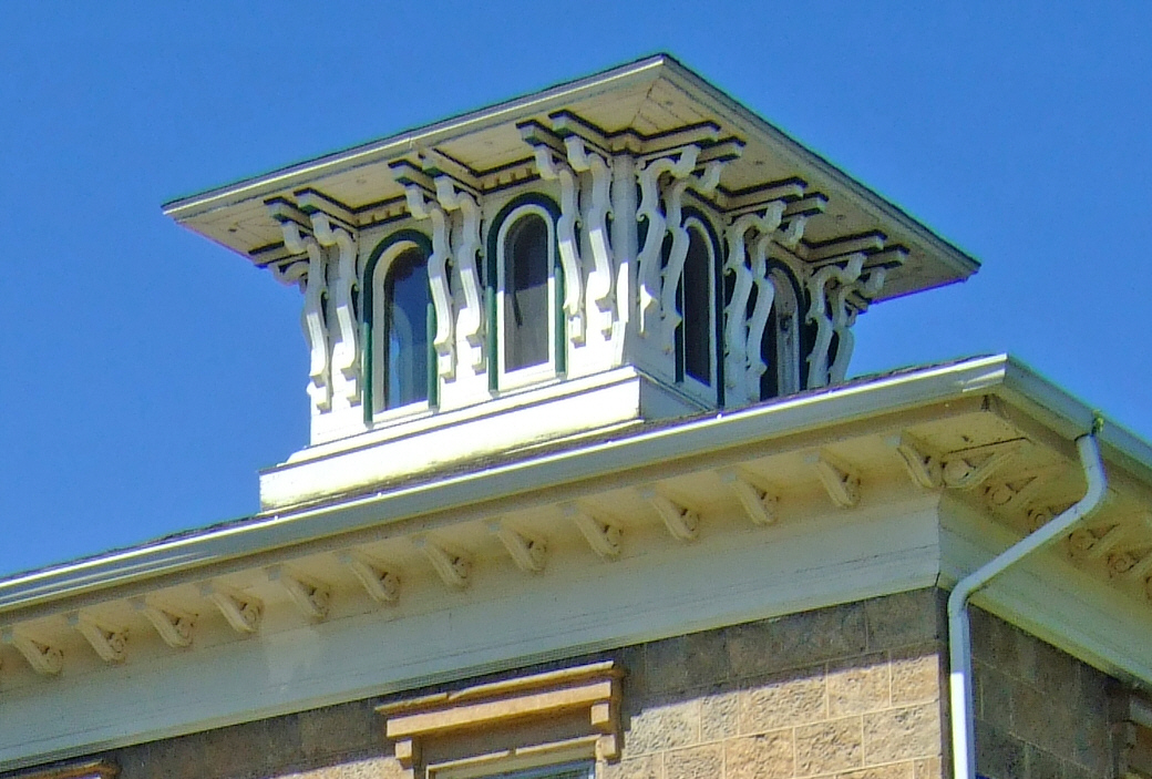 The cupola of the Italianate-style Bowen House, Madison, Wisconsin